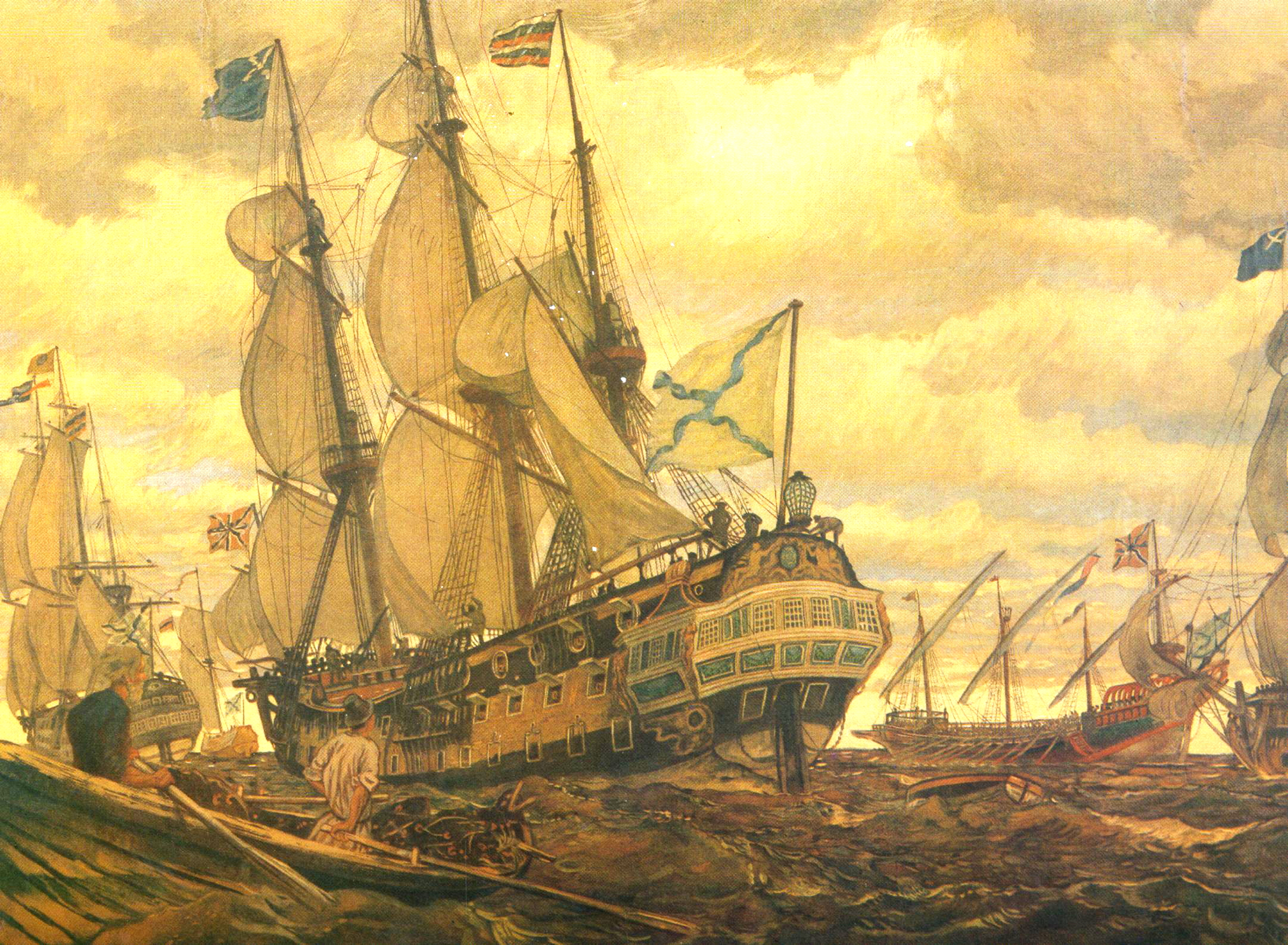 Fleet of Peter the Great (1909) by Eugene Lanceray.